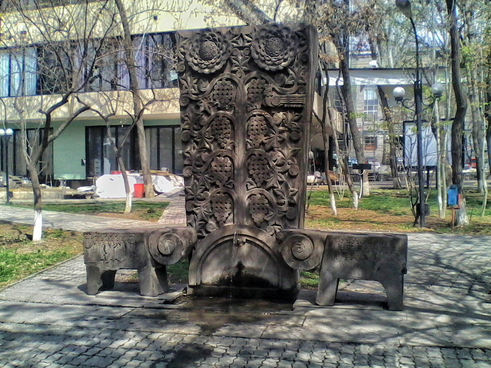 Rafael Israelyan built this spring-monument in Yerevan, sculptor Ara Harutyunyan